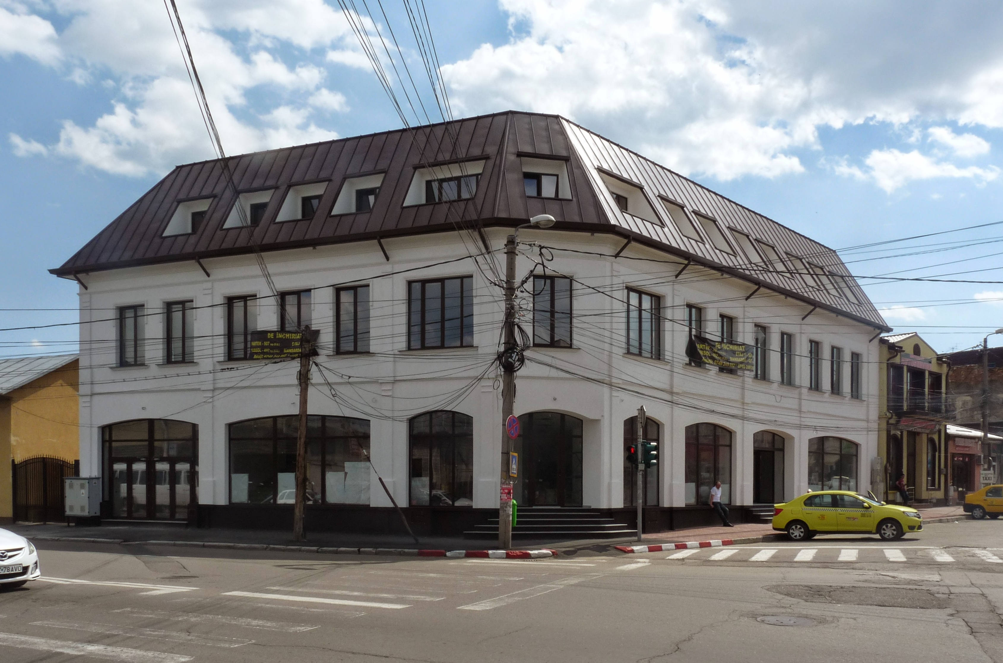 Inn at 2 Marghiloman street, Buzău, RomaniaRomână: Hanul din strada Marghiloman, nr. 2, Buzău, România